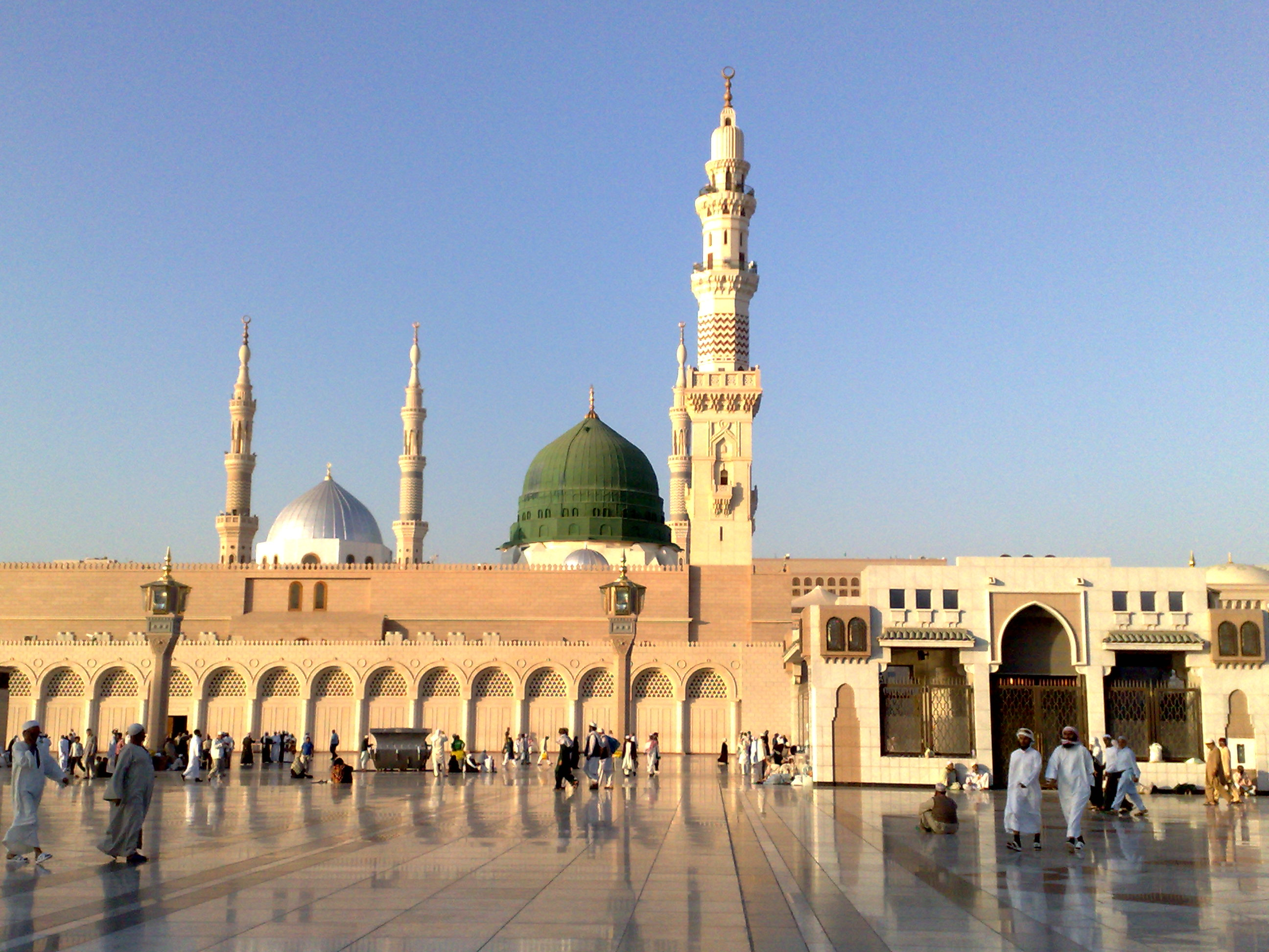 Al-Masjid al-Nabawi